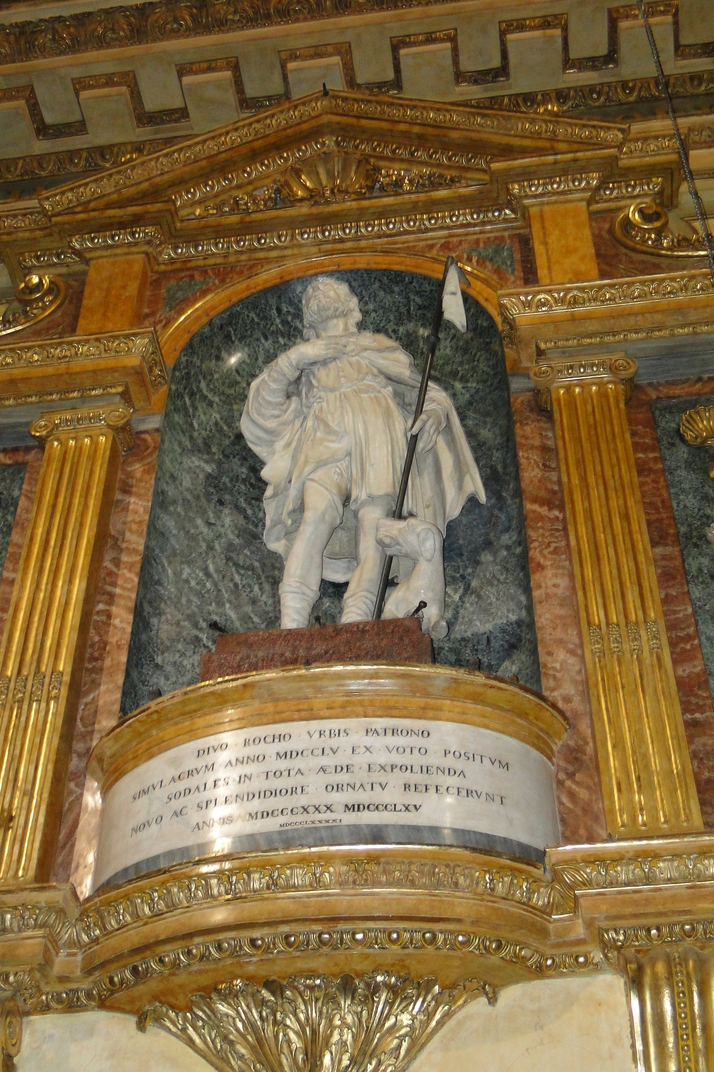 Statue of San Rocco by Carlo Amedeo Botto - Church of San Rocco (Turin, Italy)